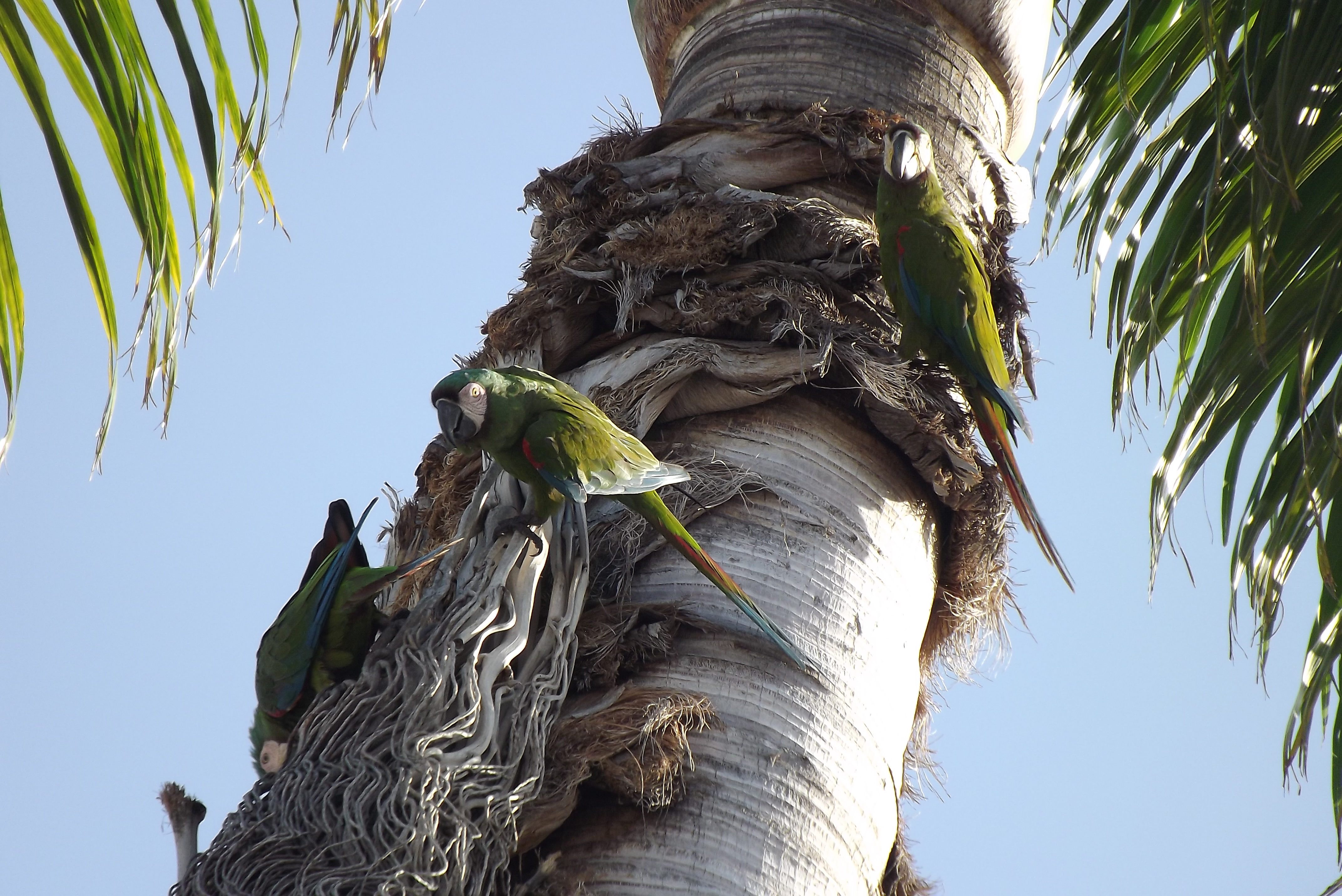 Group of three Maracaná macaws (Ara severus) resting on a palm tree in Maracay - Venezuela